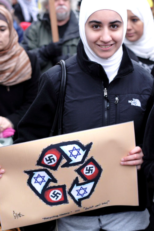 Seattle: A young woman holds a sign comparing the actions of Israel to those of Nazi Germany